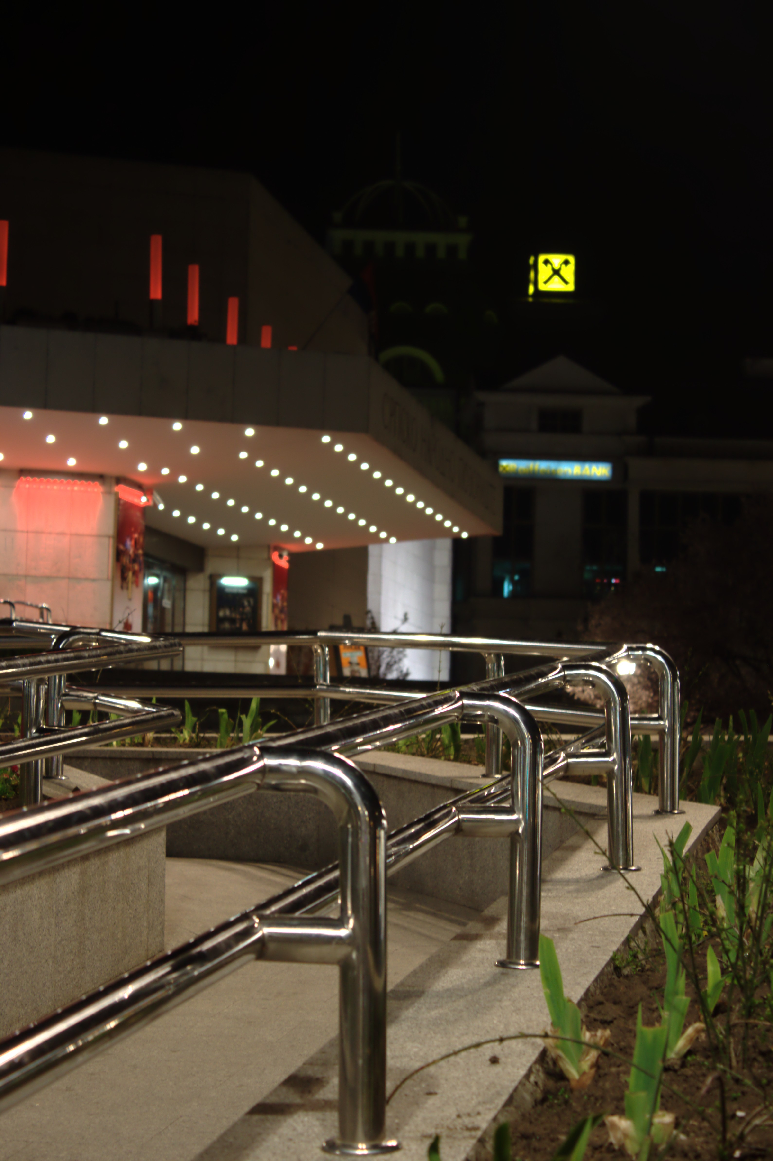 A view of the facade of the Serbian National Theatre at the Theatre Square (Pozorišni trg) in Novi Sad, Serbia, at night